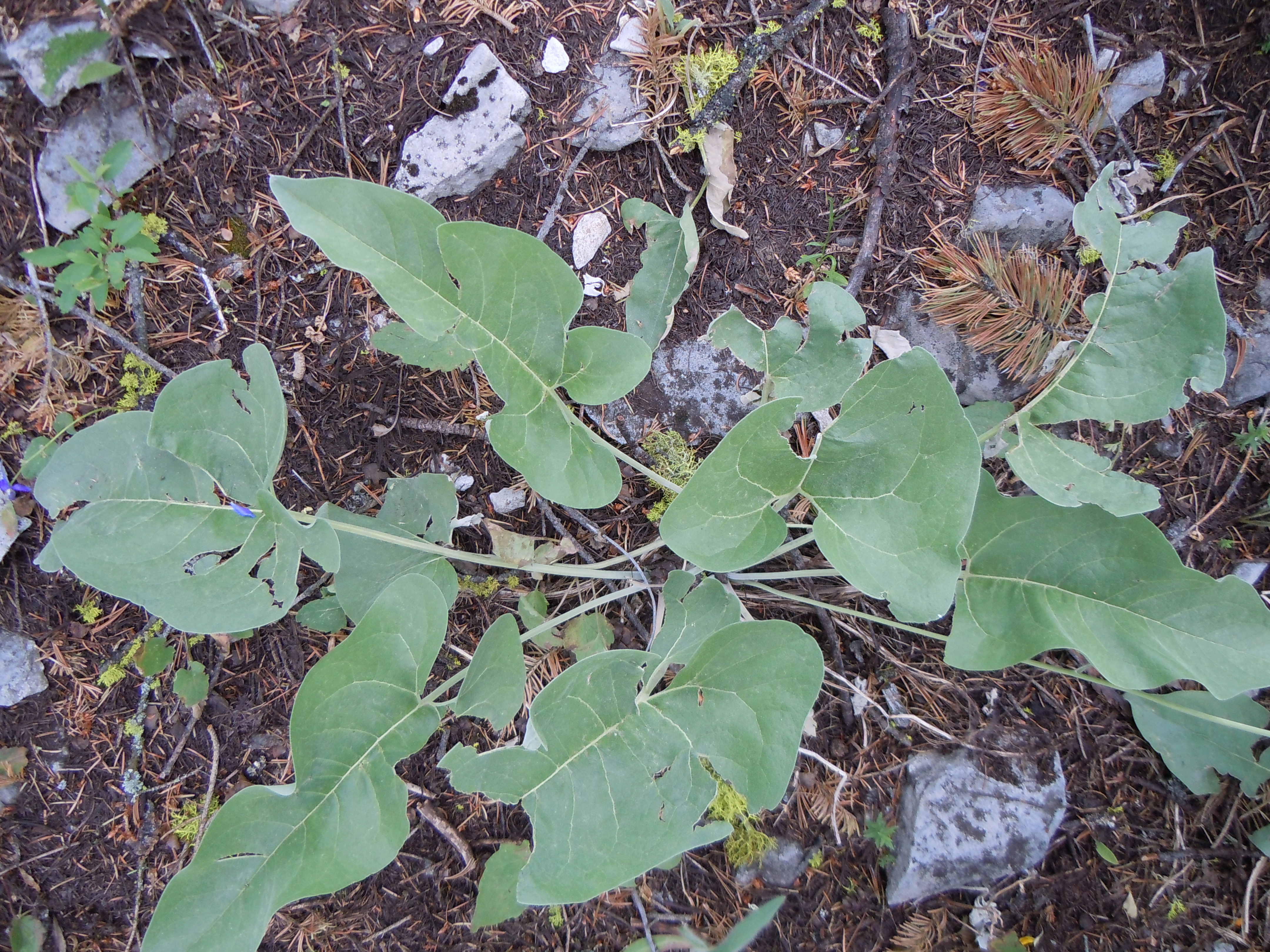 Balsamorhiza produces mostly basal leaves and few if any stem leaves.